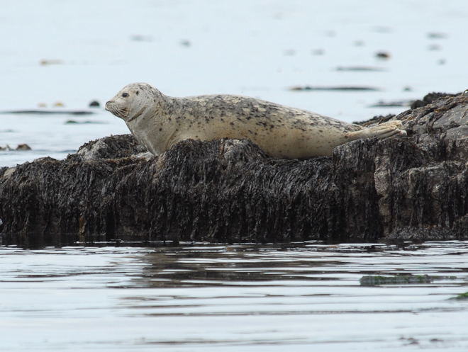 White harbor seal on moss by Dave Withrow/NOAA